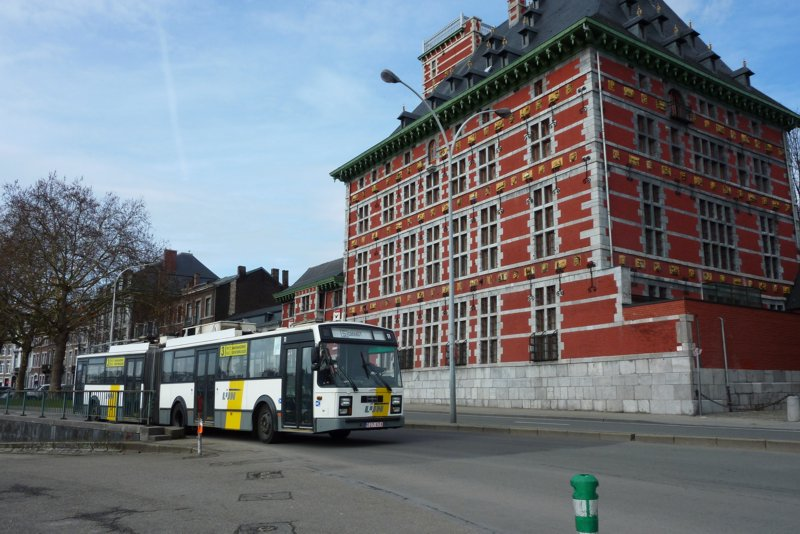 Ex-Ghent trolleybus AG280T 7411 during a test ride in Liège (Bel)